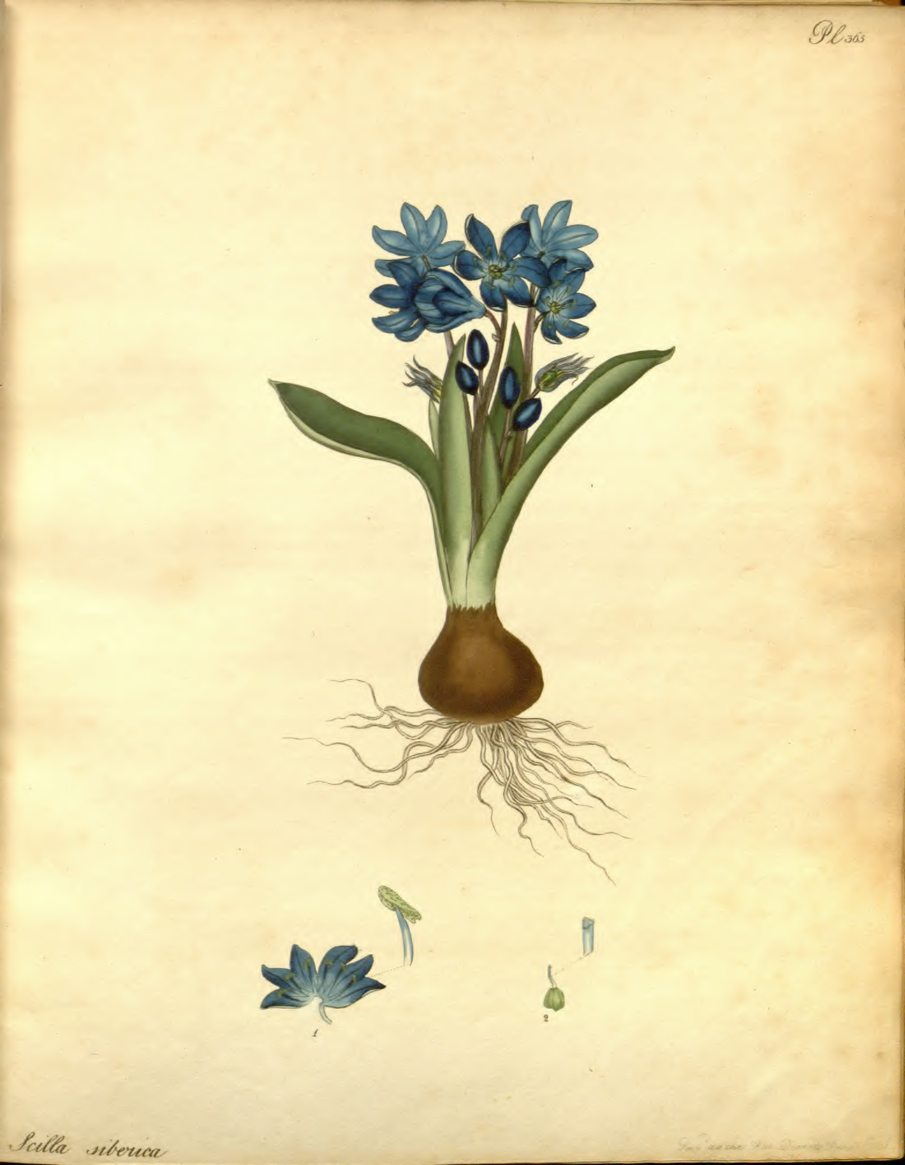 Scilla siberica Andrews